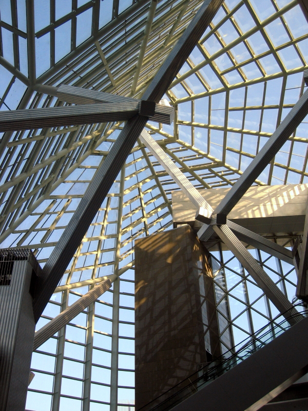 Shenzhen Library 深圳圖書館